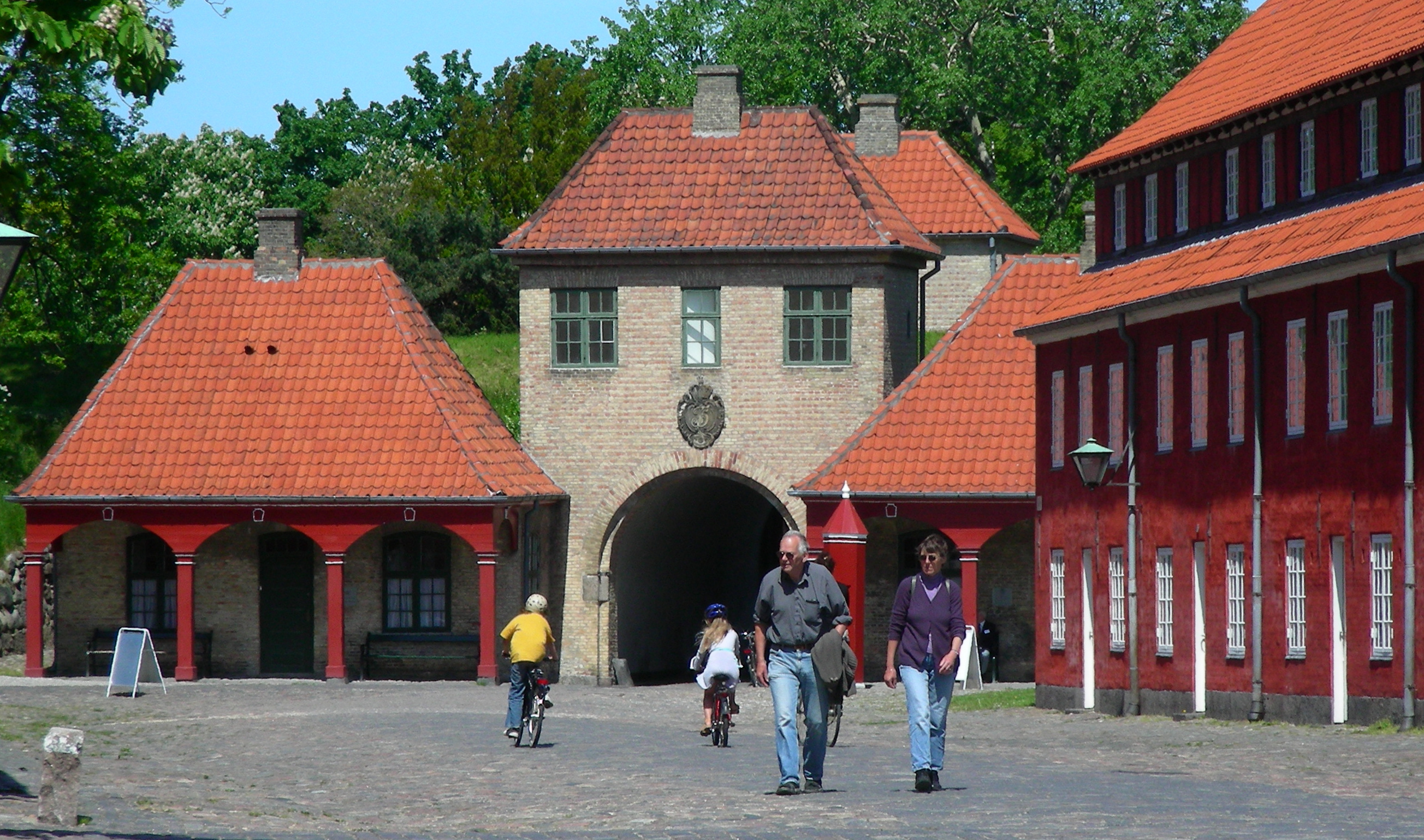 The Citadel of Copenhagen aka Kastellet. Norgesporten